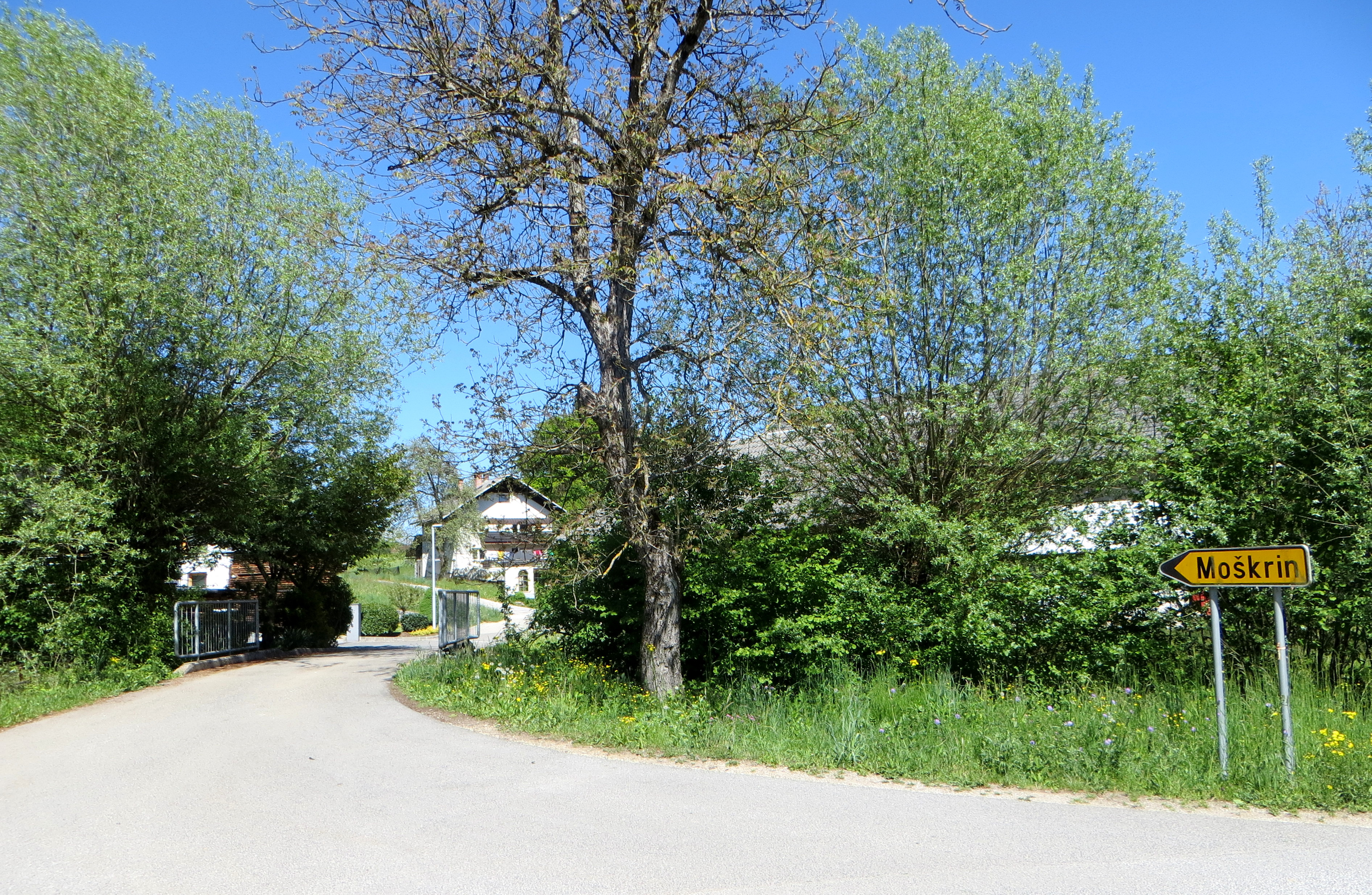 Moškrin, Municipality of Škofja Loka, Slovenia